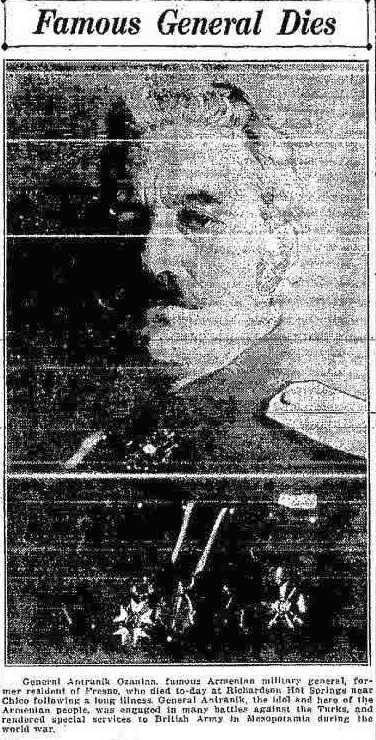 Andranik